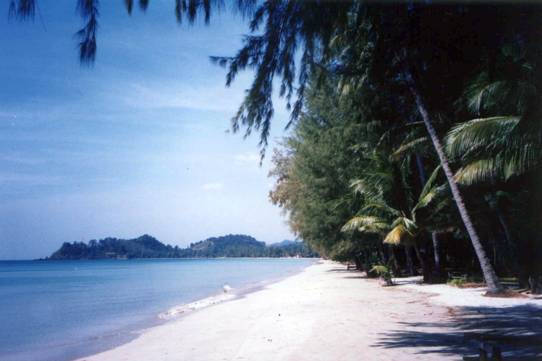 Klong Phrao Beach, Island of Koh Chang (Thailand).)